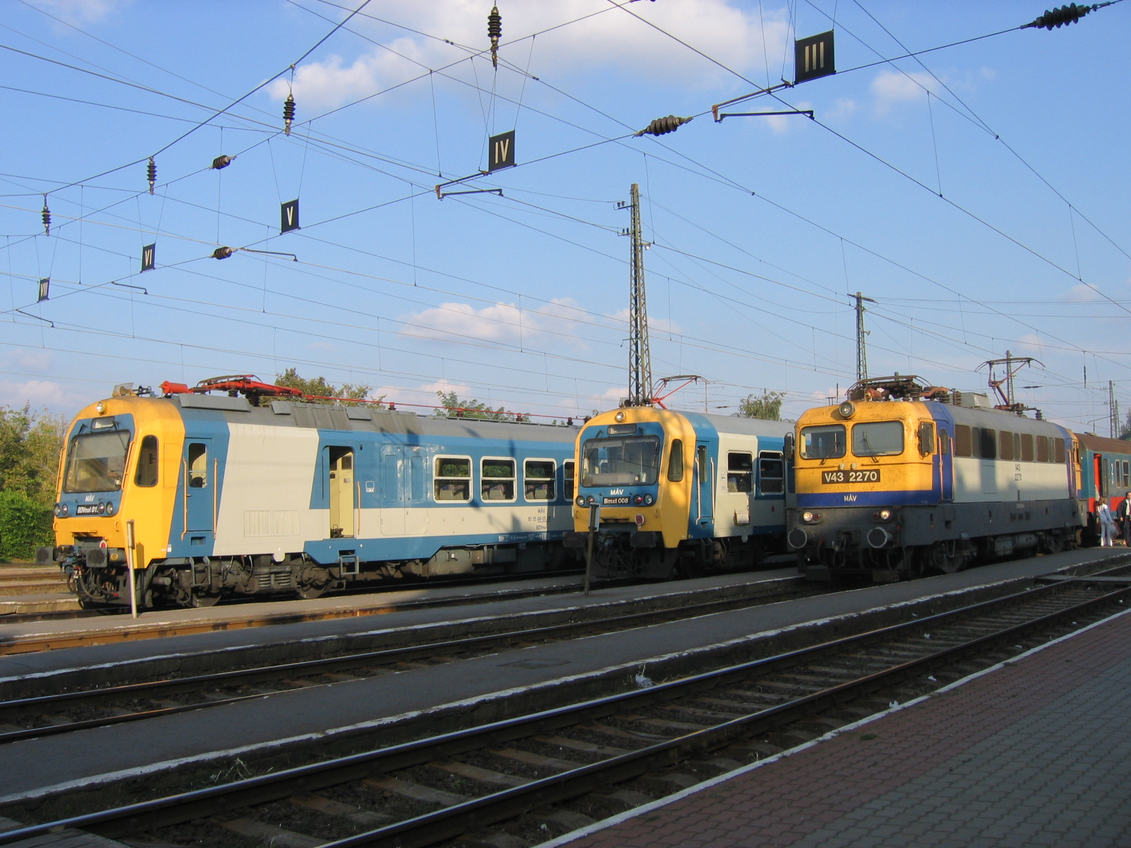 Some trains of the Hungarian state railway (Magyar Államvasutak)